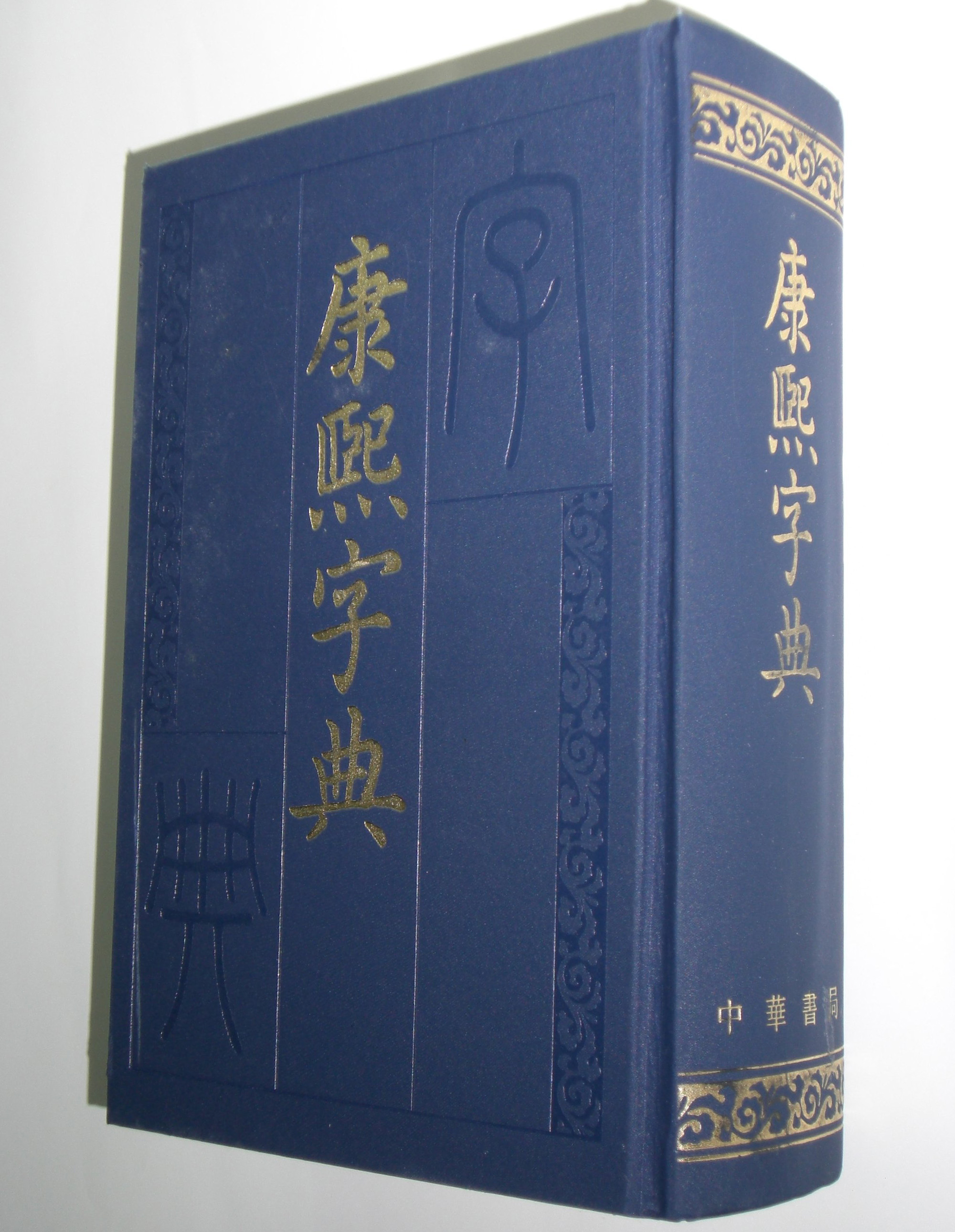 K'ang Hsi Dictionary